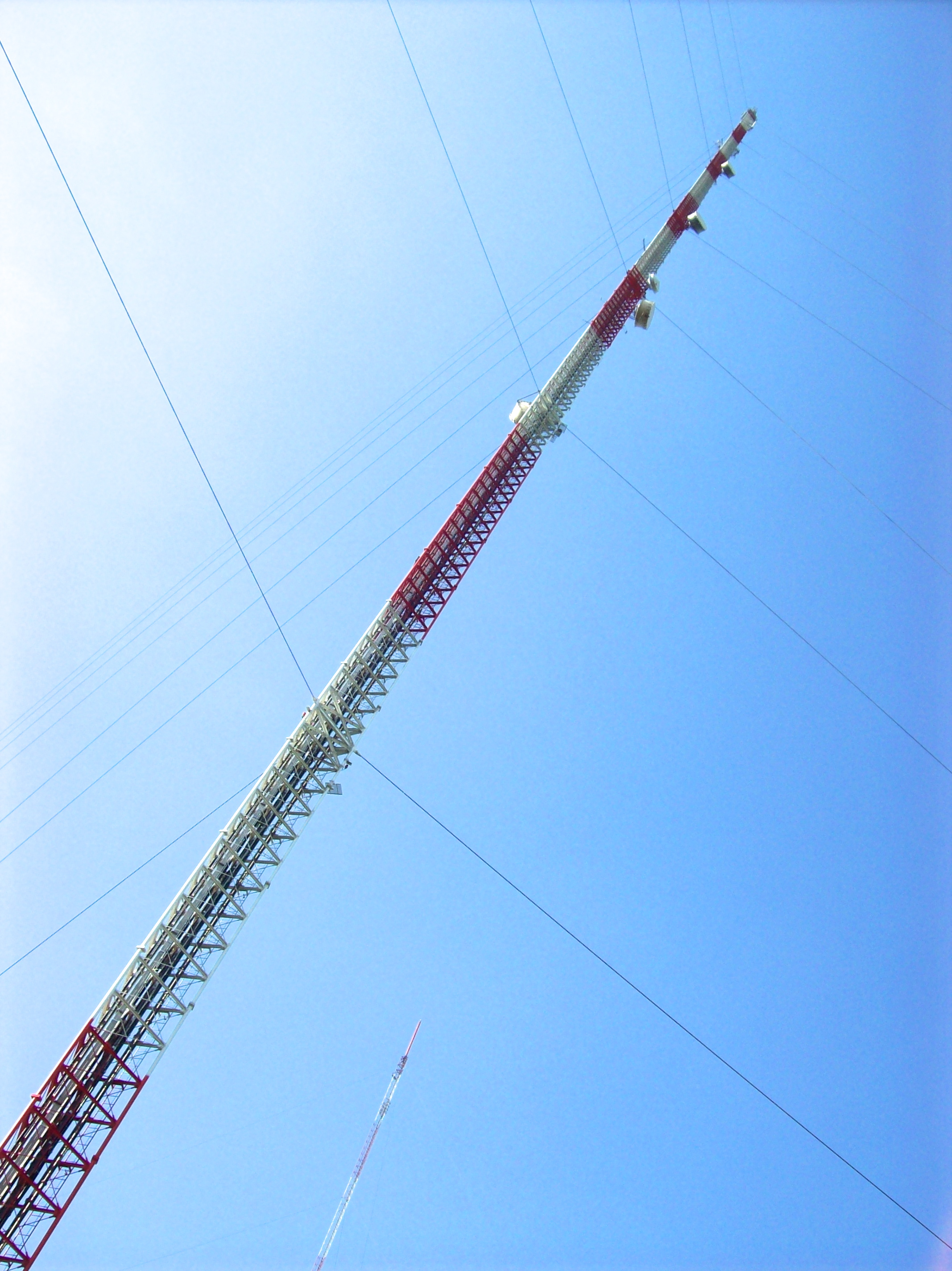 Tower (foreground*) - 2855 W. Ridgewood Dr. - Parma, Ohio, United States WBNX-TV (30 UHF, 55 PSIP) transmitter WMJI (105.7 FM) transmitter W256BT (99.1 FM) transmitter - simulcasts WMMS-HD2 *Background tower - WOIO transmitter